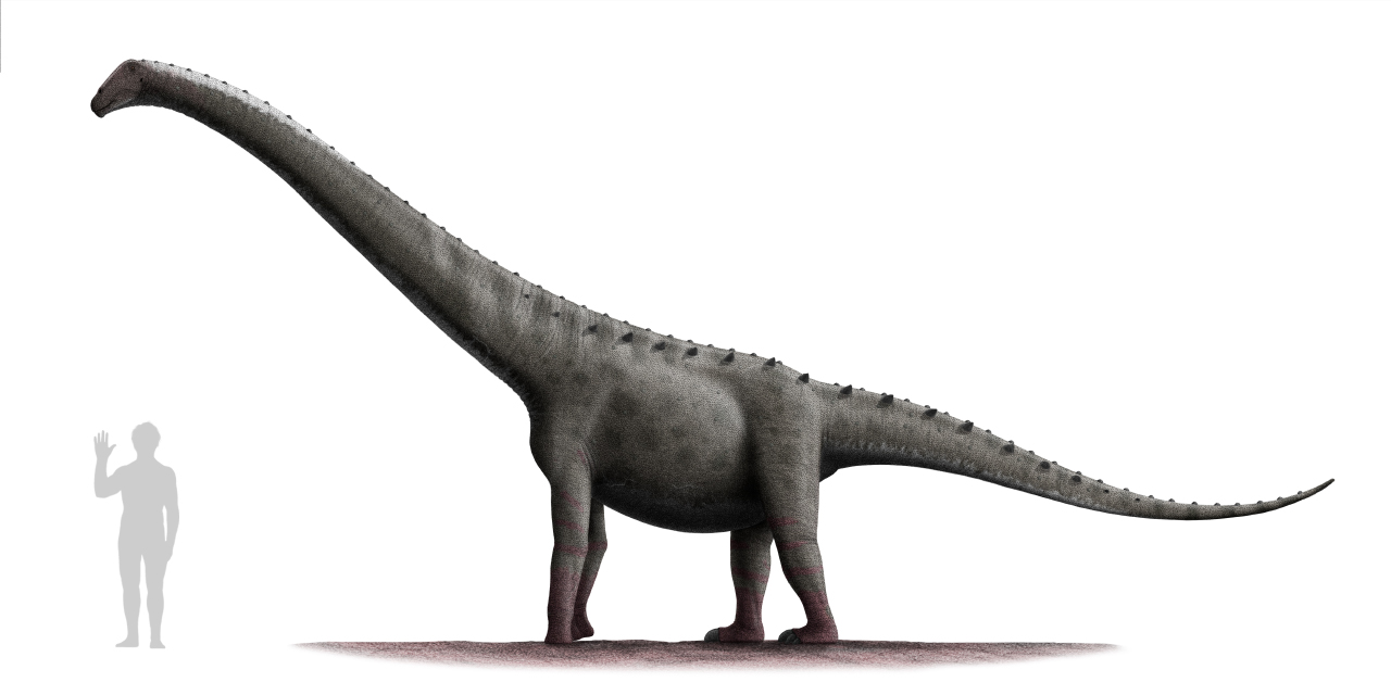 A restoration of Rinconsaurus compared to a human , • Based proportionally on fossil elements and skeletal reconstruction featured in the Rinconsaurus description,[1] with missing parts based on other titanosaur reconstructions. The remains of Rinconsaurus represent two adults and a juvenile all of which are incomplete; some of the proportions shown here, such as the neck, limb lengths, and skull shape are not certain. • Osteroderms are not yet known in Rinconsaurus. The osteoderms shown here are based loosely on Mendozasaurus.[2] Osteoderms are known from at least 10 titanosaur genera spread across the family tree but it's not clear if all titanosaurs had them.[3] Titanosaur osteoderms are rare and their layout and position on the body are not certain. [4] • The colours and patterns, as with the majority of reconstructions of prehistoric creatures, are speculative. • Human silhouette approximately 6ft tall. NOTE: I often update my images. If you want to have any of my images on a website, please (if possible) don’t host/save it to the website server. I’d prefer it if the image's Wikimedia URL is used. This means that if I update an image, it will be updated on the site as well. Thanks. References ↑ Coria, Jorge; B.J.G. Riga (2003). "Rinconsaurus caudamirus gen. et sp nov., a new titanosaurid (Dinosauria, Sauropoda) from the Late Cretaceous of Patagonia, Argentina". Revista Geologica de Chile 30 (2): 333–353. ISSN 0716-0208. Retrieved on 2007-05-21. ↑ González Riga B (2003) A new titanosaur (Dinosauria, Sauropoda) from the Upper Cretaceous of Mendoza, Argentina. Ameghiniana 40 (2) ↑ Carrano, M.T. and D’Emic, M.D. 2015 'Osteoderms of the titanosaur sauropod dinosaur Alamosaurus sanjuanensis Gilmore, 1922'. Journal of Vertebrate Paleontology. ↑ Vidal D, Ortega F, Sanz JL (2014) Titanosaur Osteoderms from the Upper Cretaceous of Lo Hueco (Spain) and Their Implications on the Armor of Laurasian Titanosaurs. PLoS ONE 9(8): e102488.